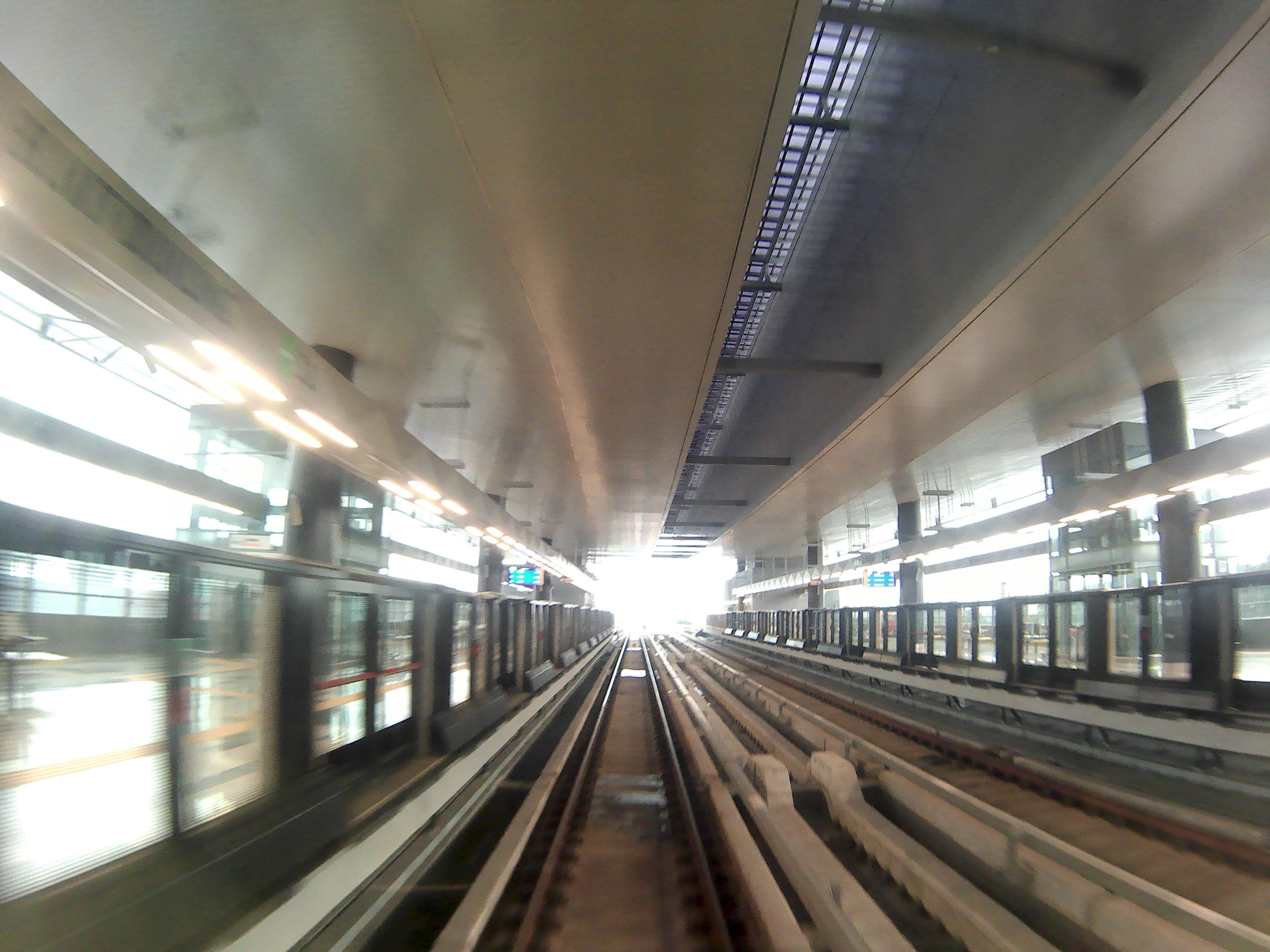 Bukit Dukung MRT station platform